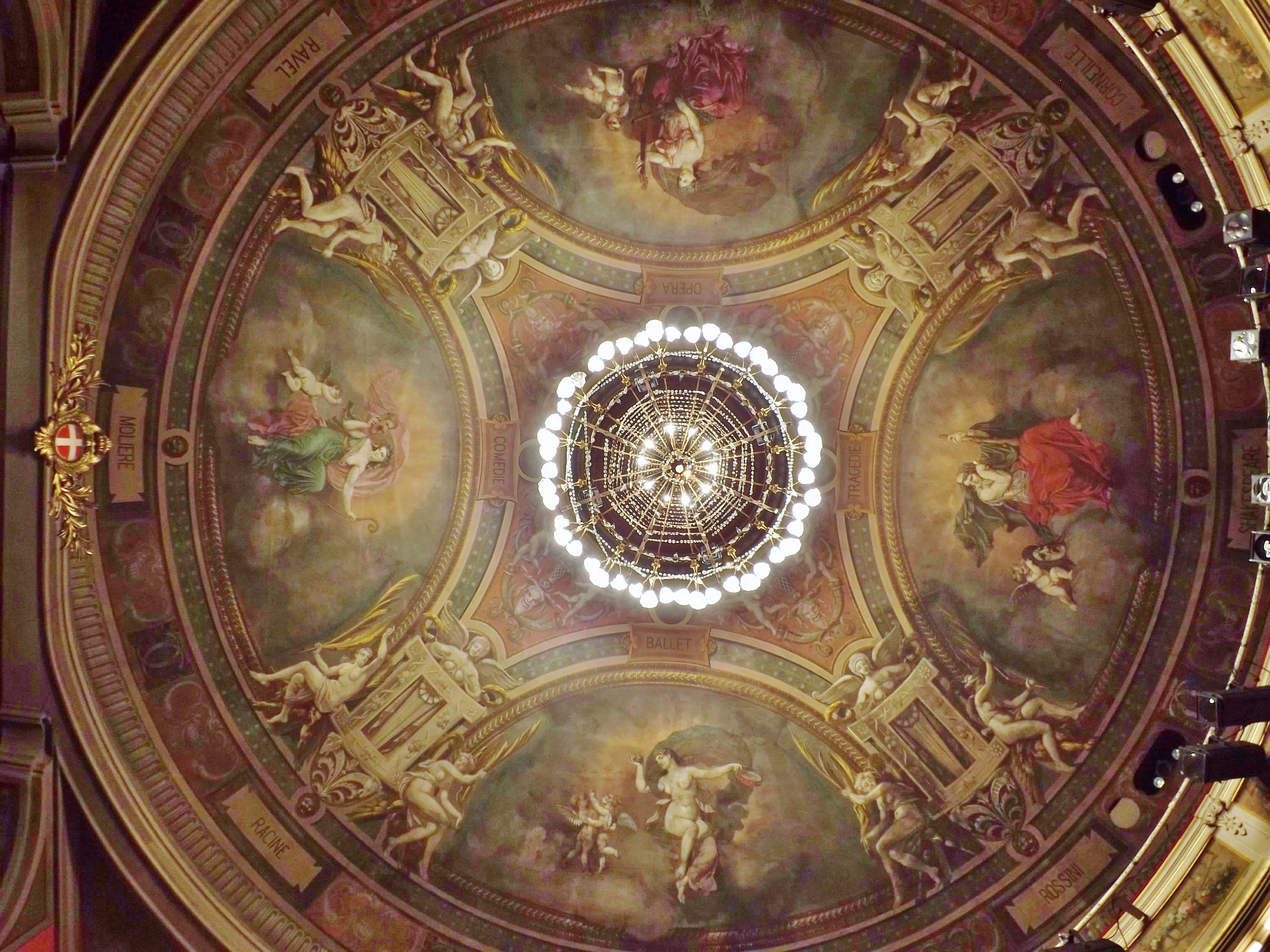 Sight of the painted dome painted of the Chambéry theater, Savoie, France.